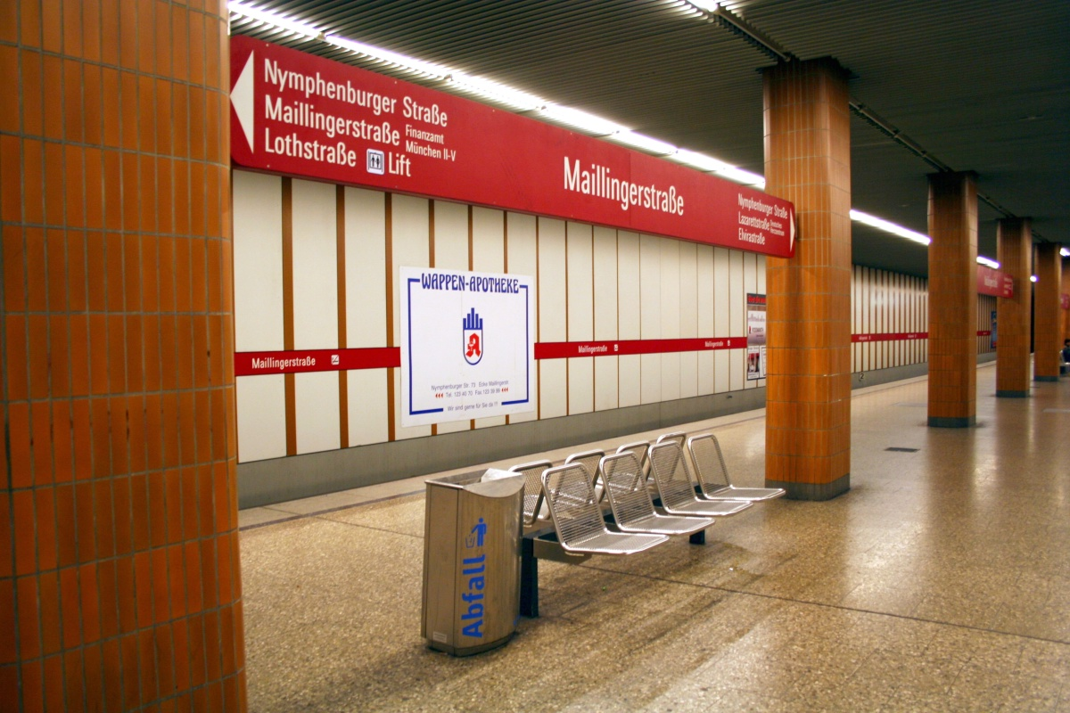 Munich subway station Maillingerstraße